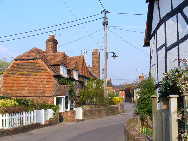 Crondall A pretty Hampshire village with numerous old cottages. However, the overhead telephone wires detract from the scene.